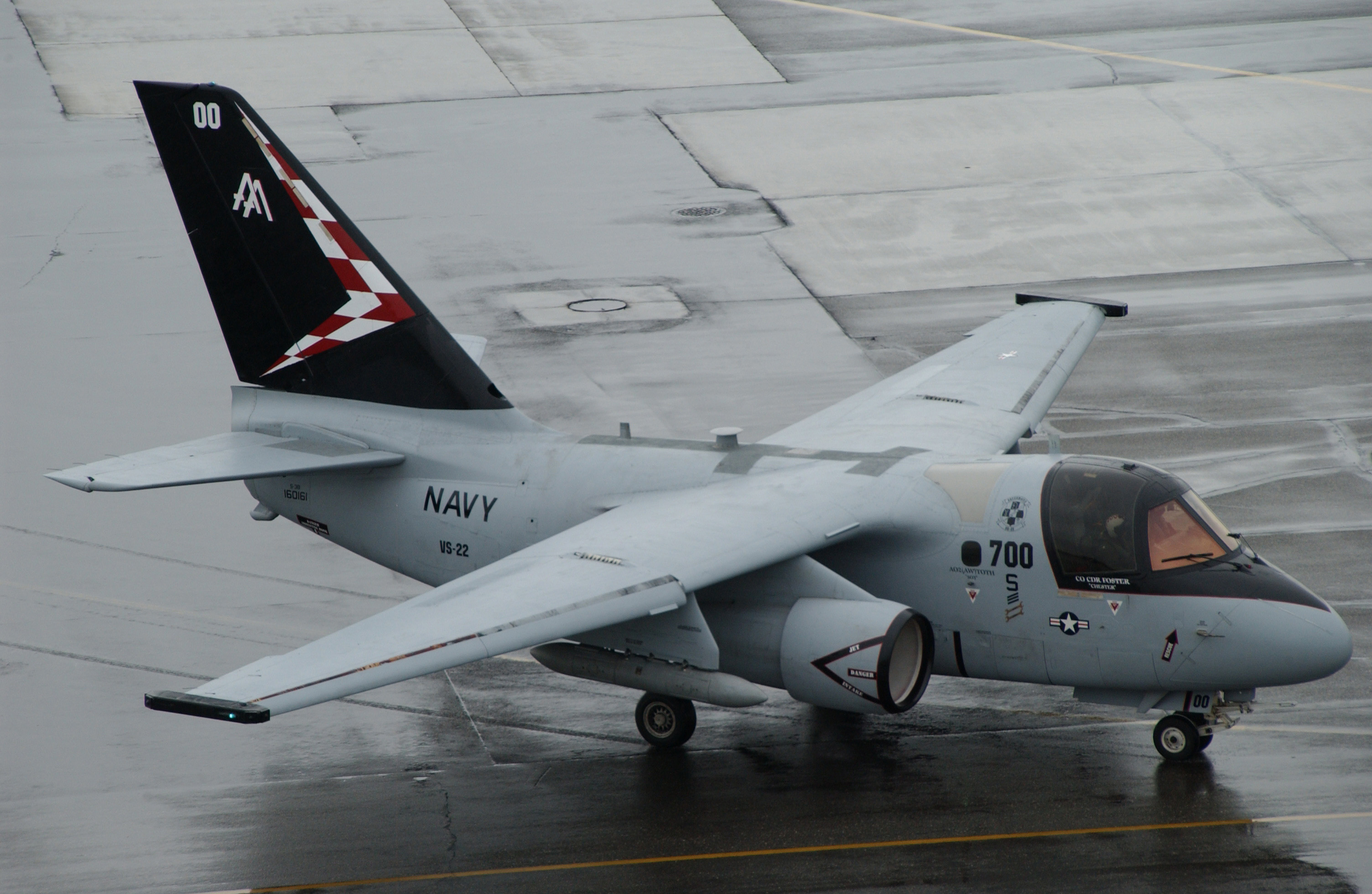 FAIRBANKS, Alaska (July 11, 2007) - An S-3B Viking aircraft taxis down the runway after arriving at Eielson Air Force Base to participate in exercise Red Flag-Alaska. Red Flag Alaska is an Air Force level exercise to enable aviation units to sharpen their combat skills by flying ten simulated combat sorties in a realistic threat environment. U.S. Air Force photo by Airman 1st Class Christopher Griffin (RELEASED)